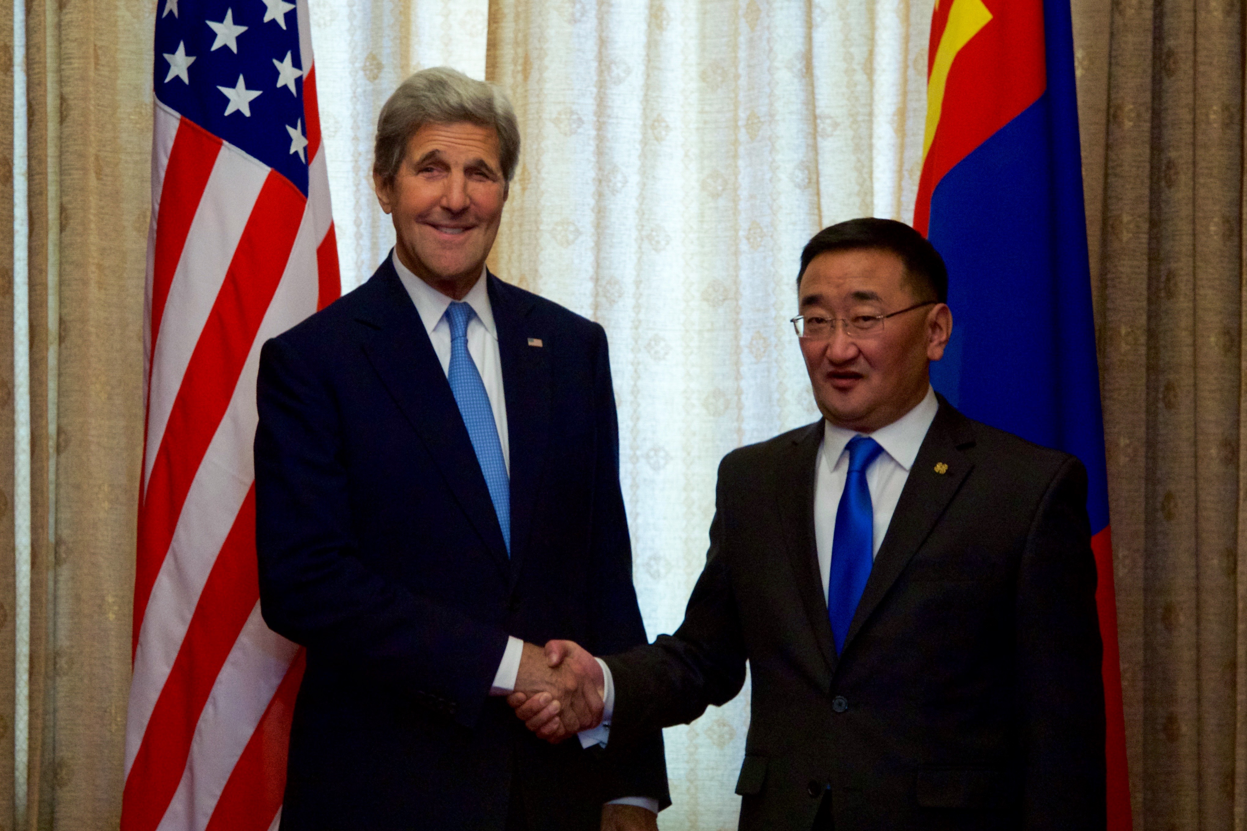 U.S. Secretary of State John Kerry shakes hands with Mongolian Foreign Minister Lundeg Purevsuren at the Ministry of Foreign Affairs in Ulaanbataar, Mongolia, on June 5, 2016, before the Secretary held bilateral meetings with the Minister and Mongolian President Tsakhia Elbegdorj. [State Department Photo/Public Domain]